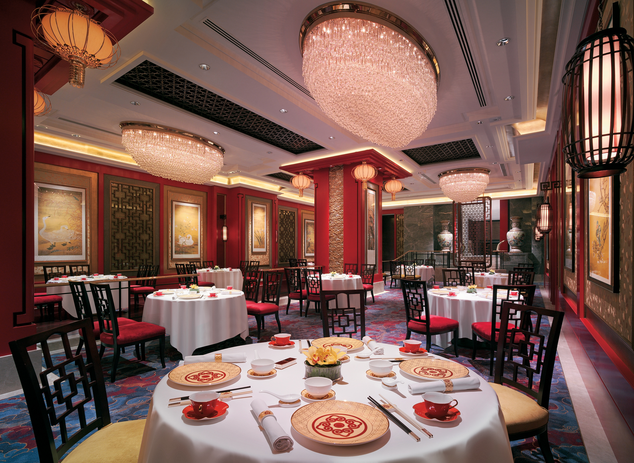 Michelin two-starred Shang Palace main dining hall